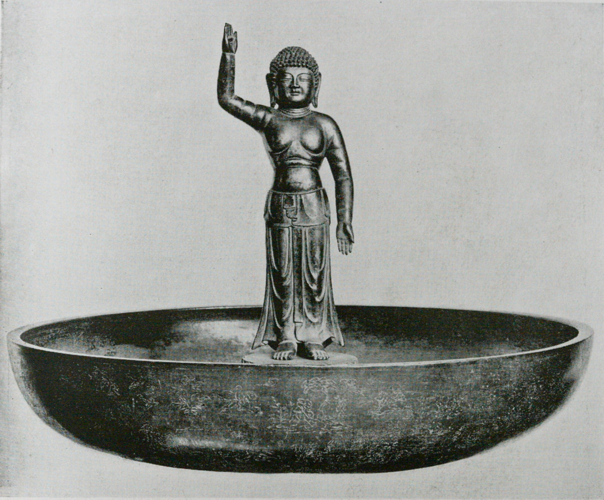 Shaka at birth and ablution basin Bronze, Statue height 47cm, basin diameter 89cm, 8th century, Tōdai-ji, Nara, Japan